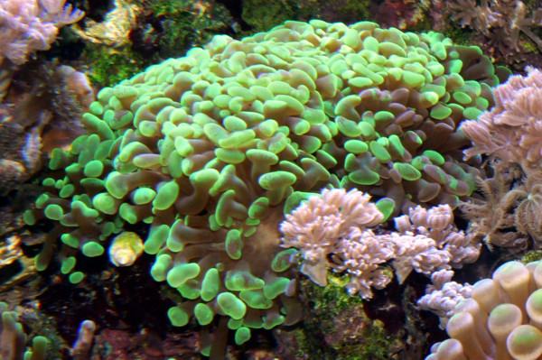 Euphyllia paraancora My own Photo User:Haplochromis